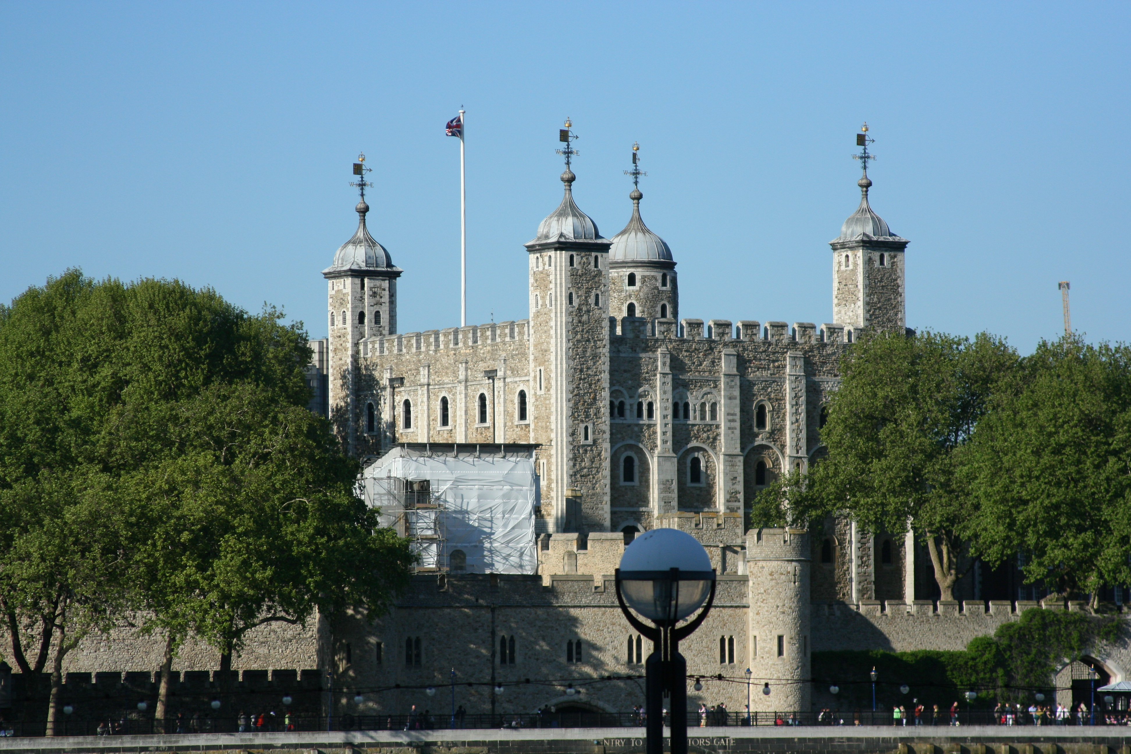 Tower of London, London